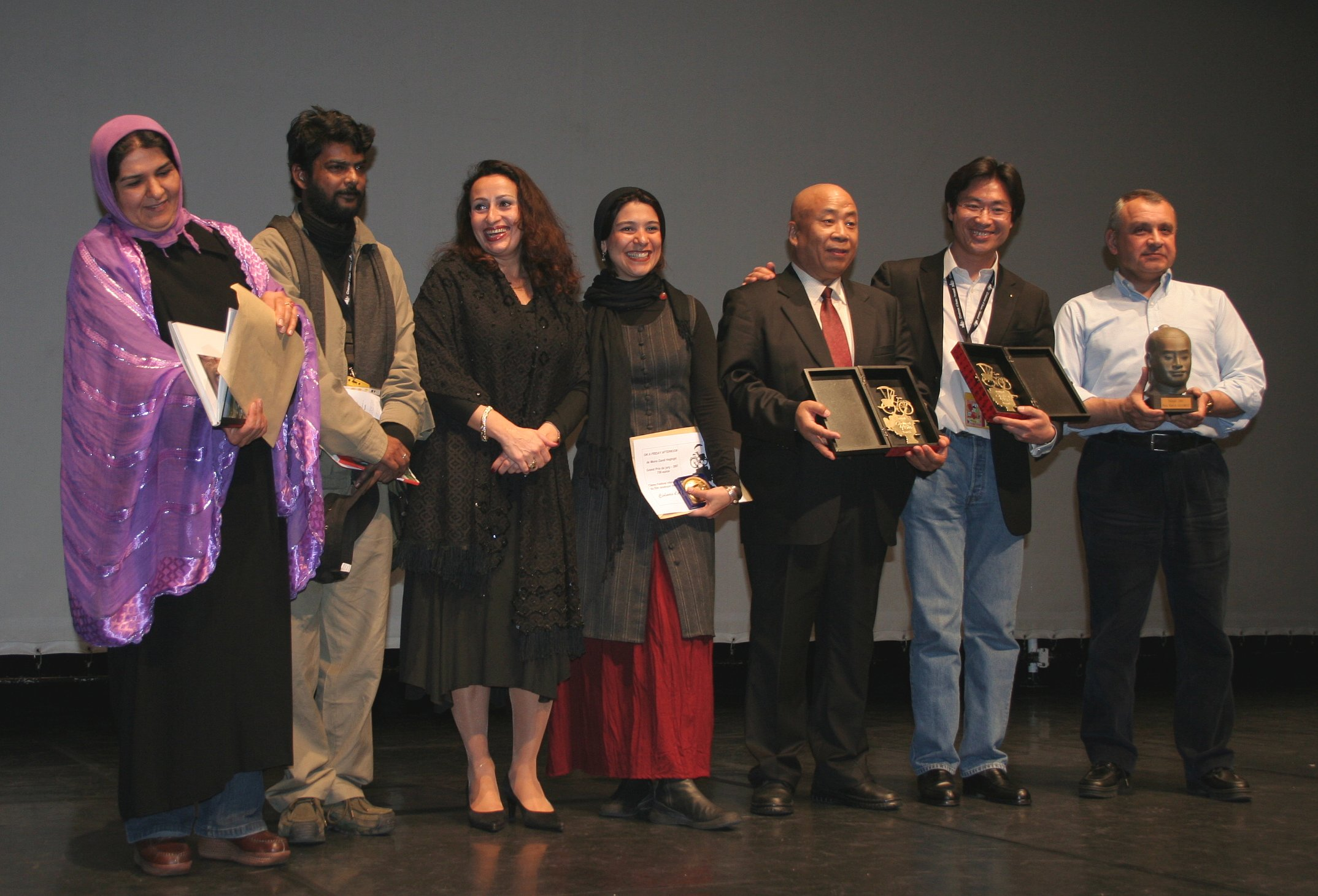 Palmares 2007, Ensieh Shah Hosseini, Bappaditya Bandopadhyay, Dima Al-Joundi, Mona Zandi Haghighi, Wu Tianming, the other film directors weren't there.